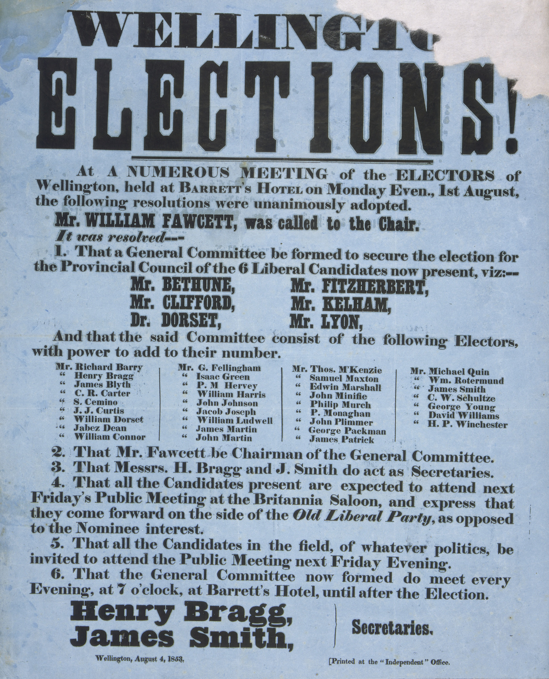 Wellington Provincial Council elections, 1853. Text reports progress of meeting, and lists six candidates and 34 electors who comprised the committee.